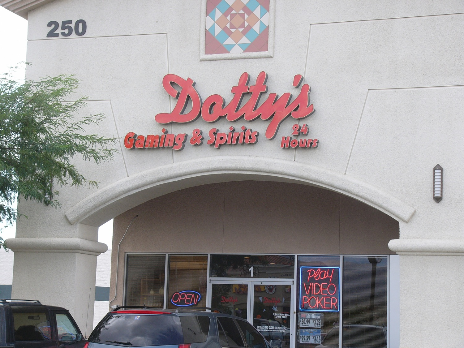 One of the Dotty's chain of slot machine parlors, located in Pahrump, Nevada